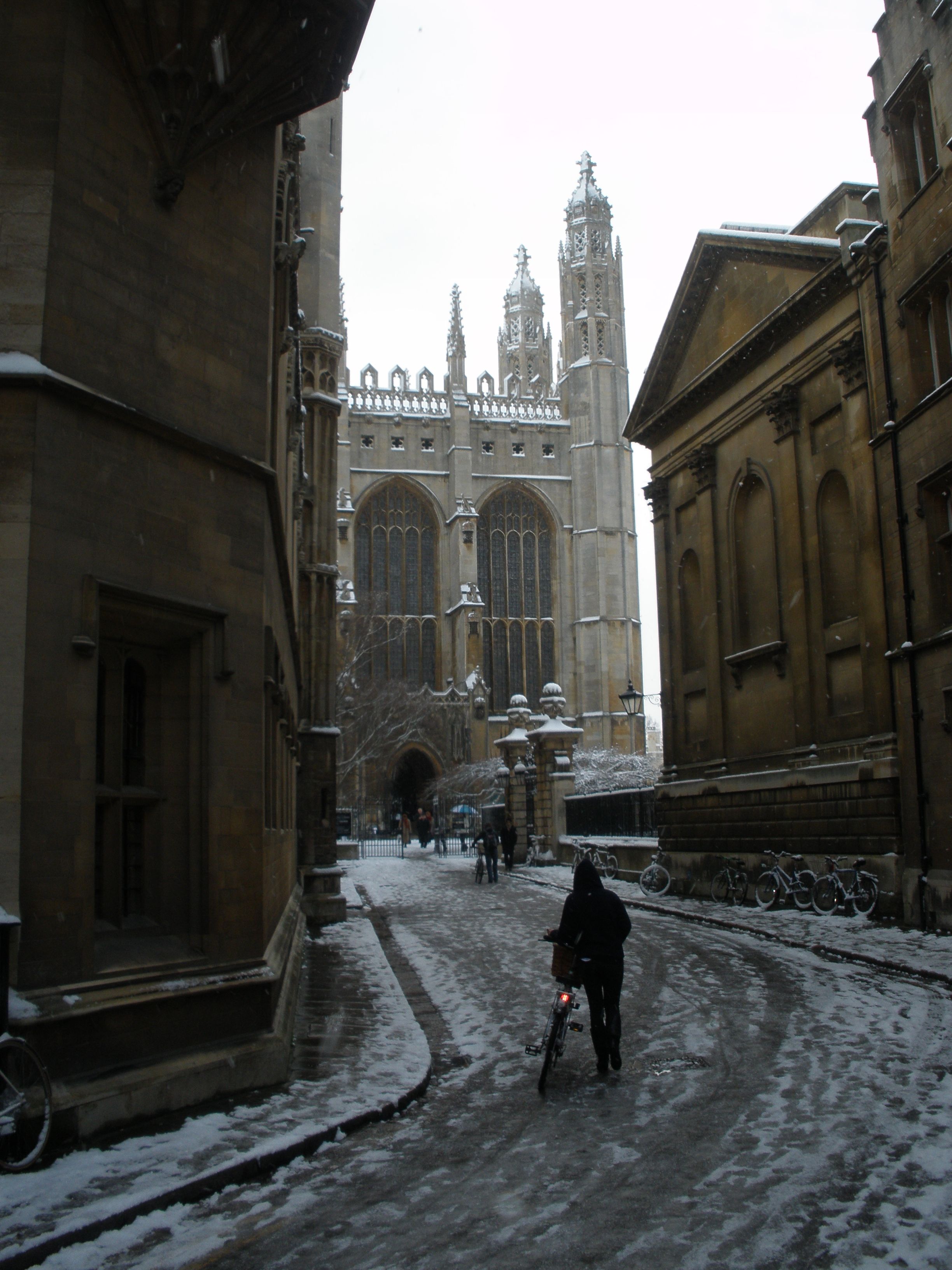 The Western end of King's College Chapel from Trinity Lane in the snow